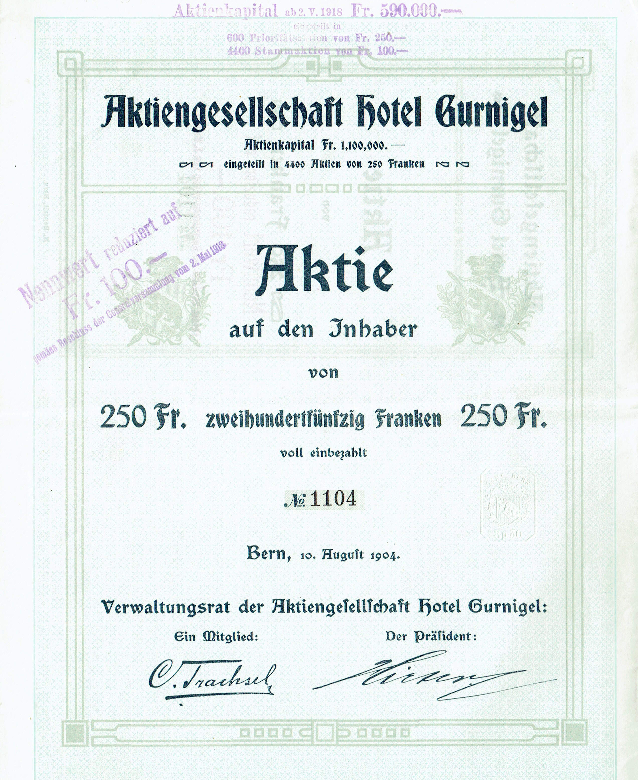 Share of the AG Hotel Gurnigel, issued 10. August 1904